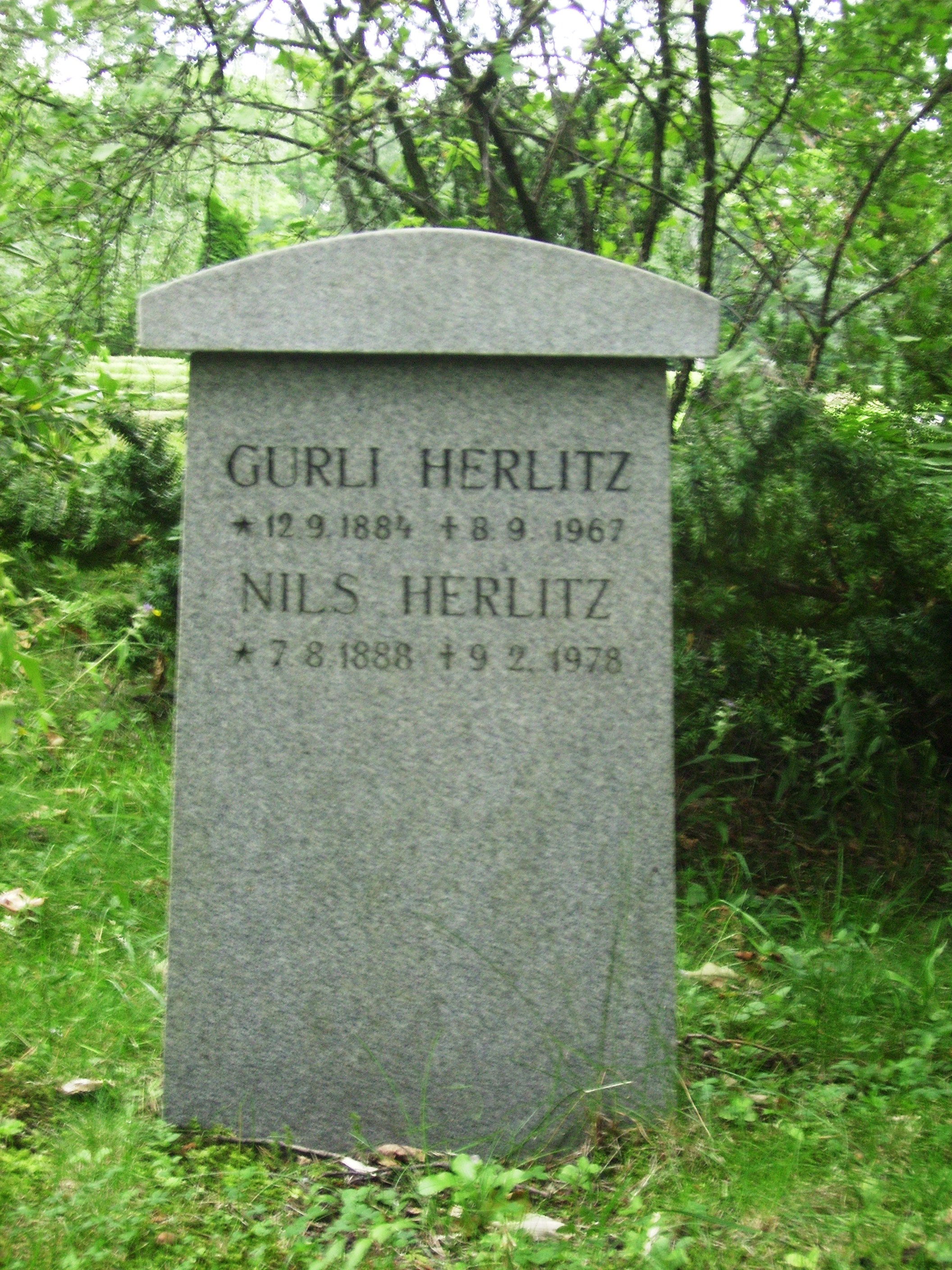 Picture of Nils Herlitz grave at Djursholms burial ground